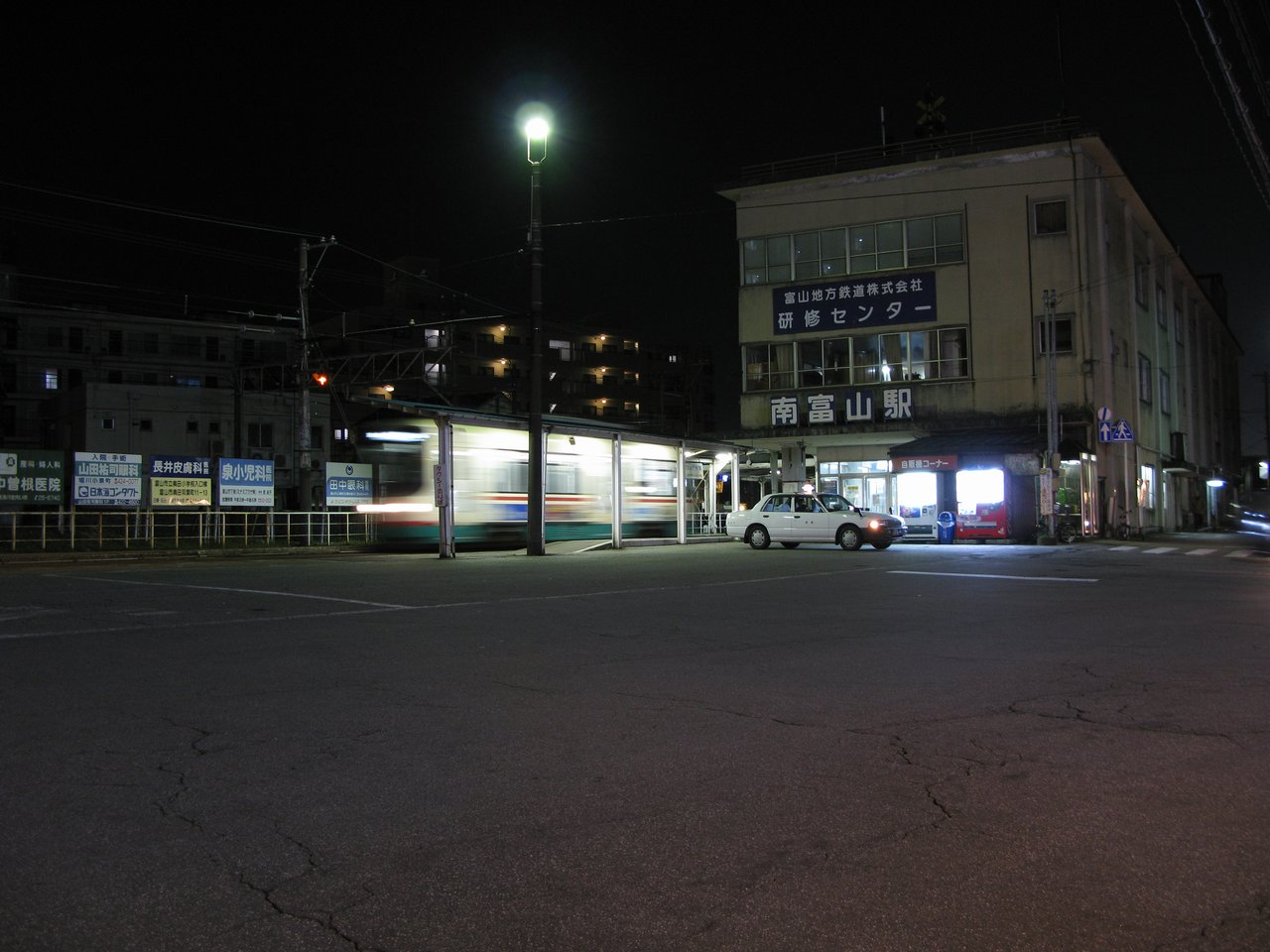 Minami-Toyama Station at night